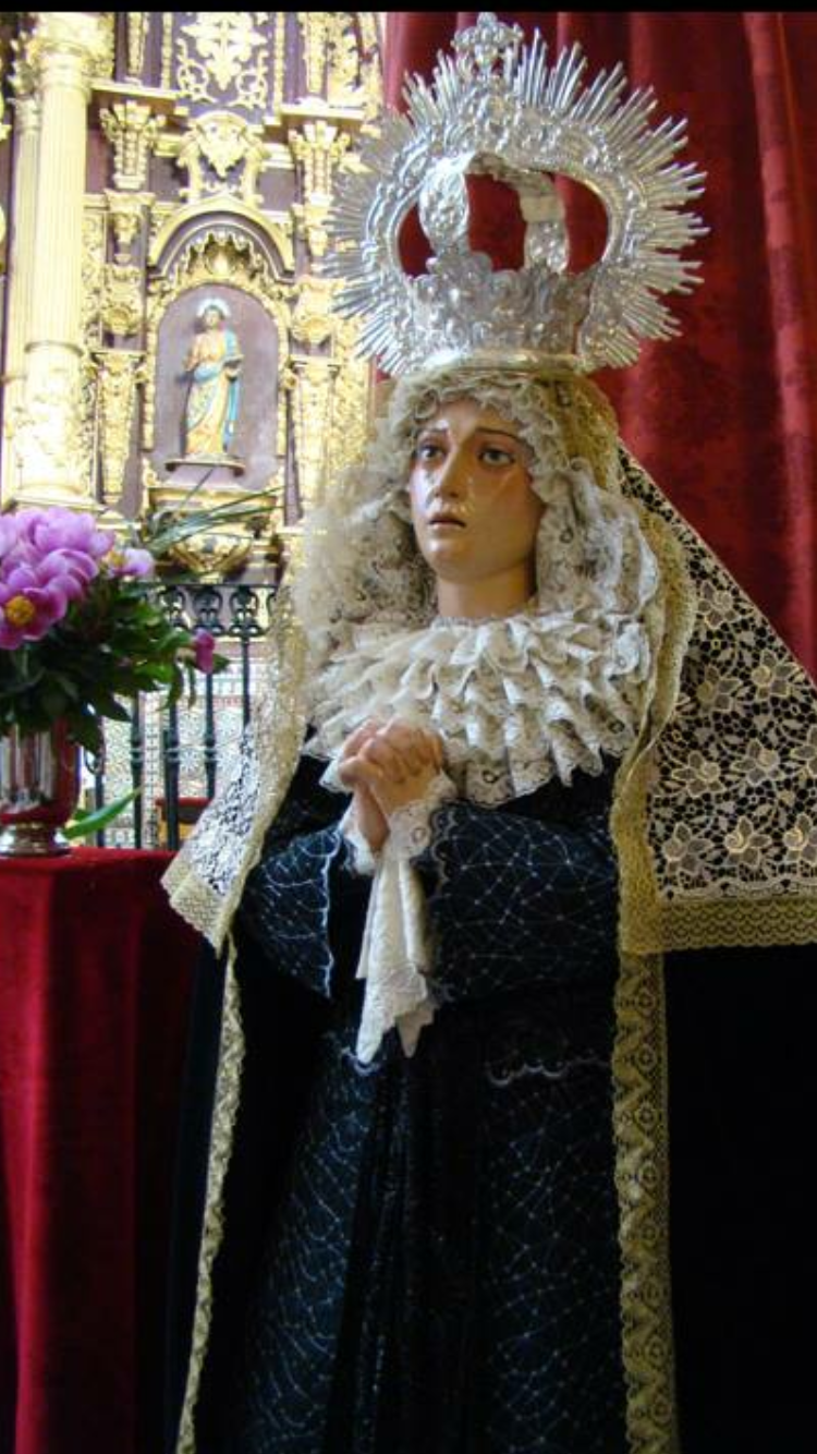 Our Lady of the Soledad